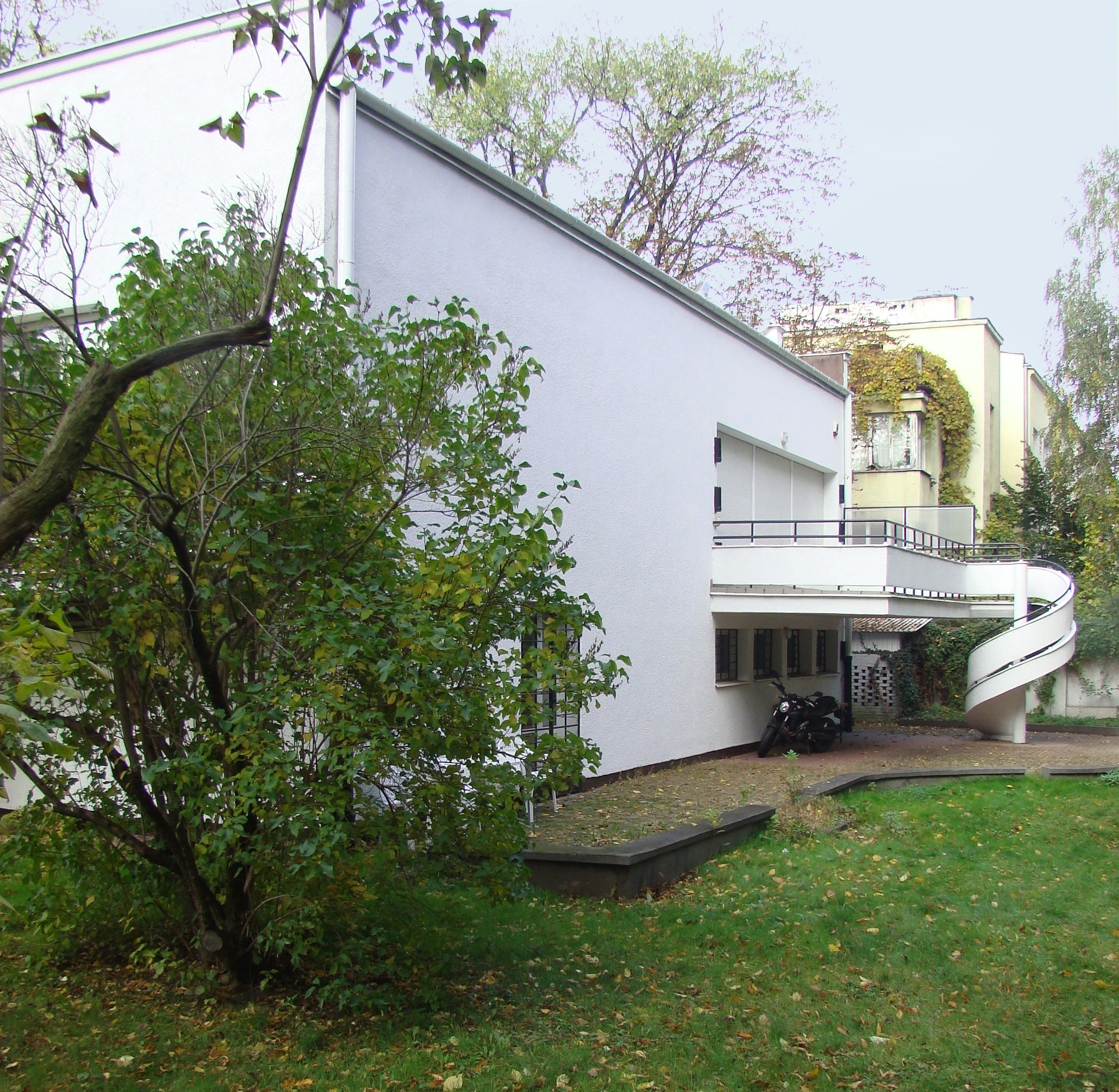 Villa Łepkowski Warsaw 1934-35 architects Korngold&Lubiński